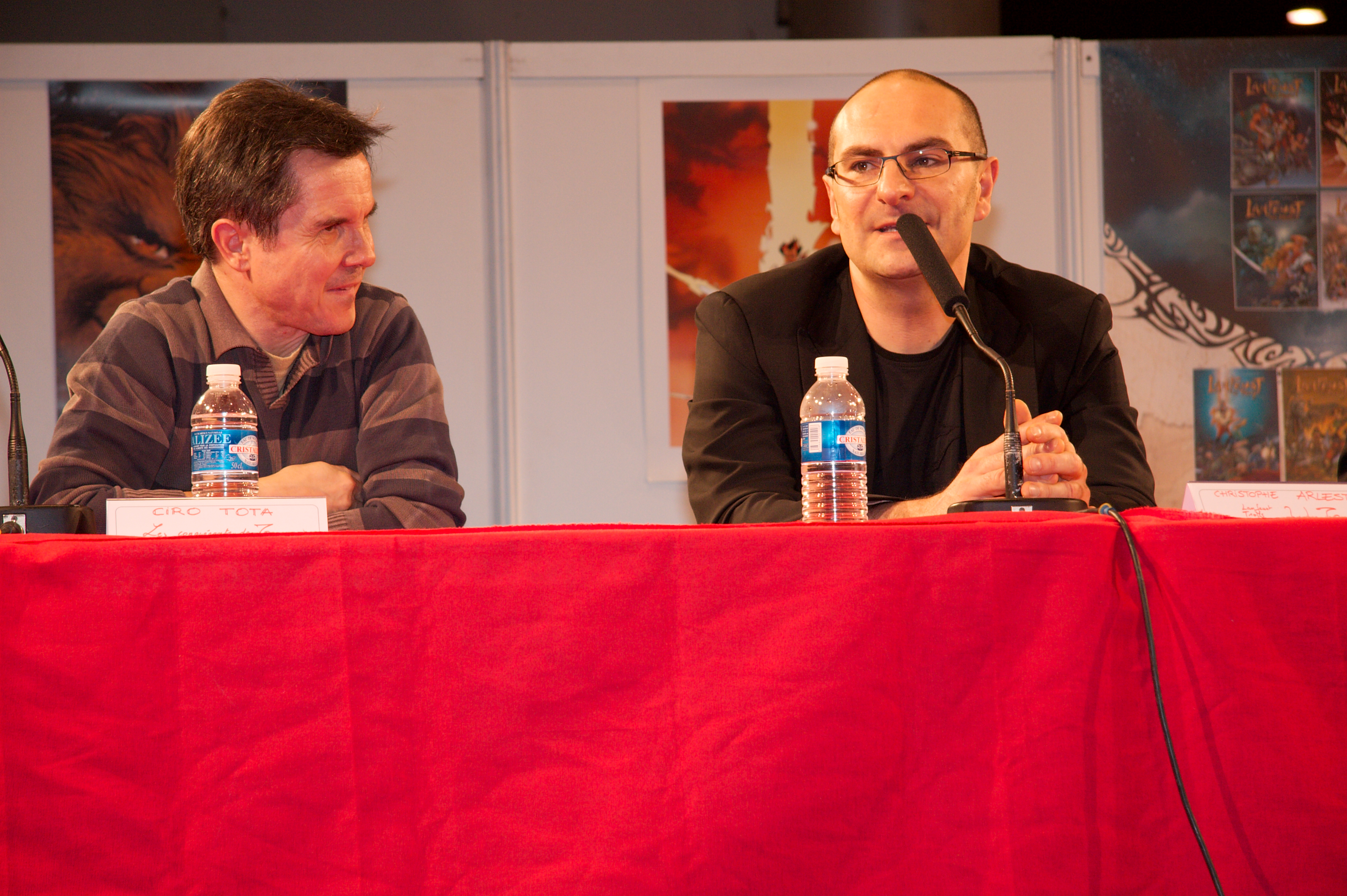 Conference with Claude Guth, Ciro Tota, Christophe Arleston, Jean-Louis Mourier and Didier Tarquin at Chibi Japan Expo 2007 (Paris, France).